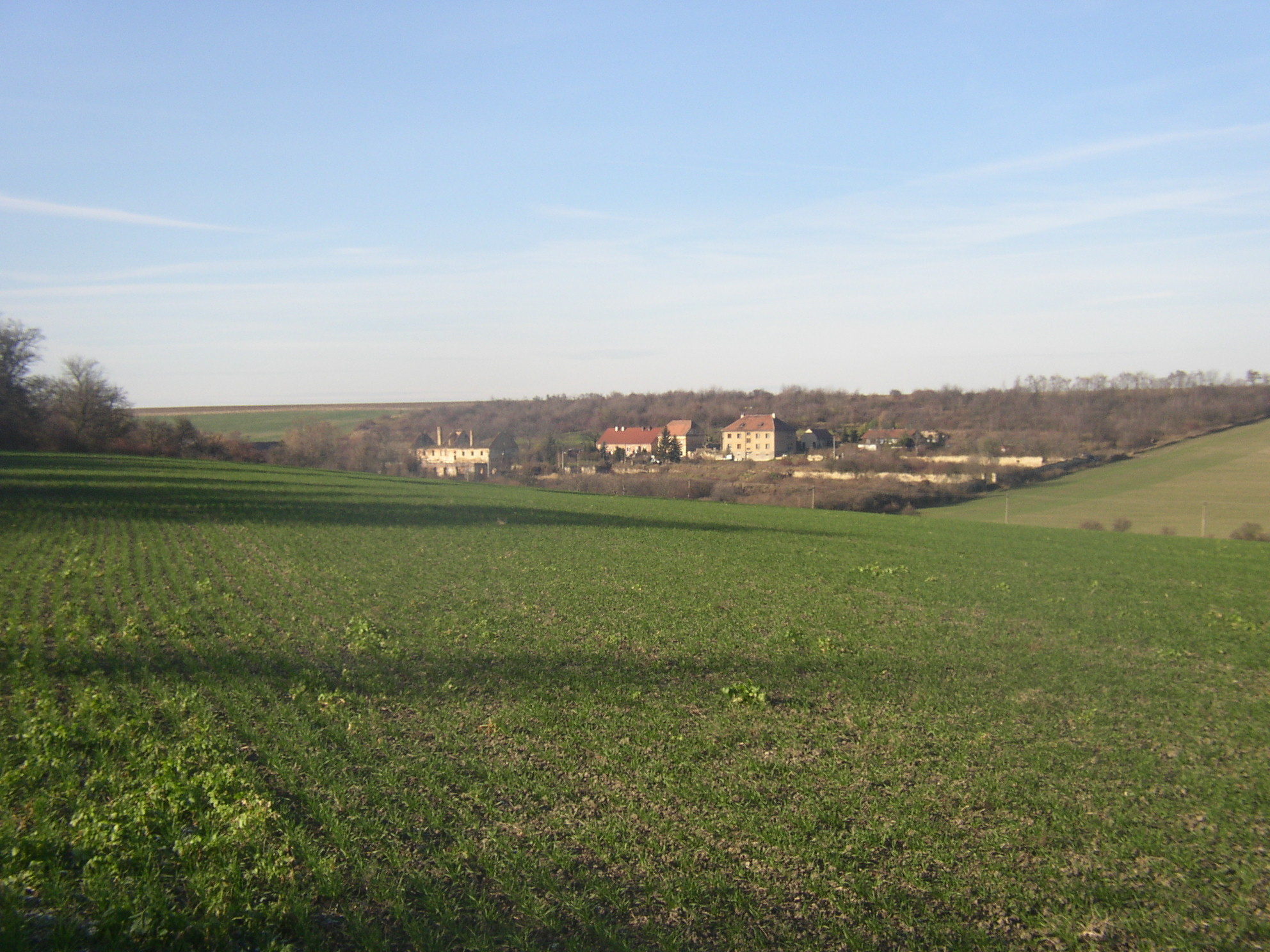 Village of Holousy, part of Třebusice municipality, Kladno District, Central Bohemian Region, Czech Republic. General view from ESE.